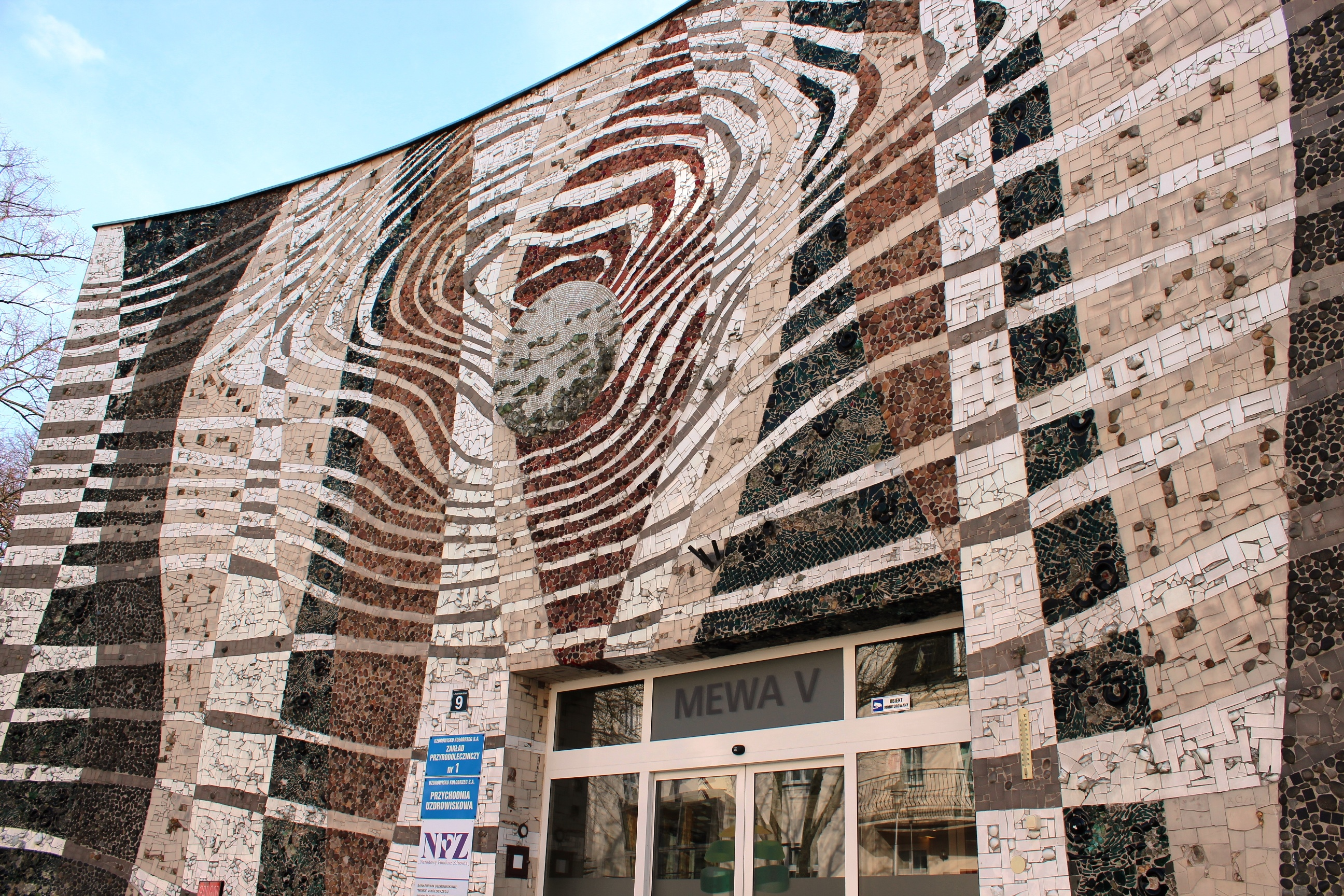 Mewa V Sanatorium in Kołobrzeg